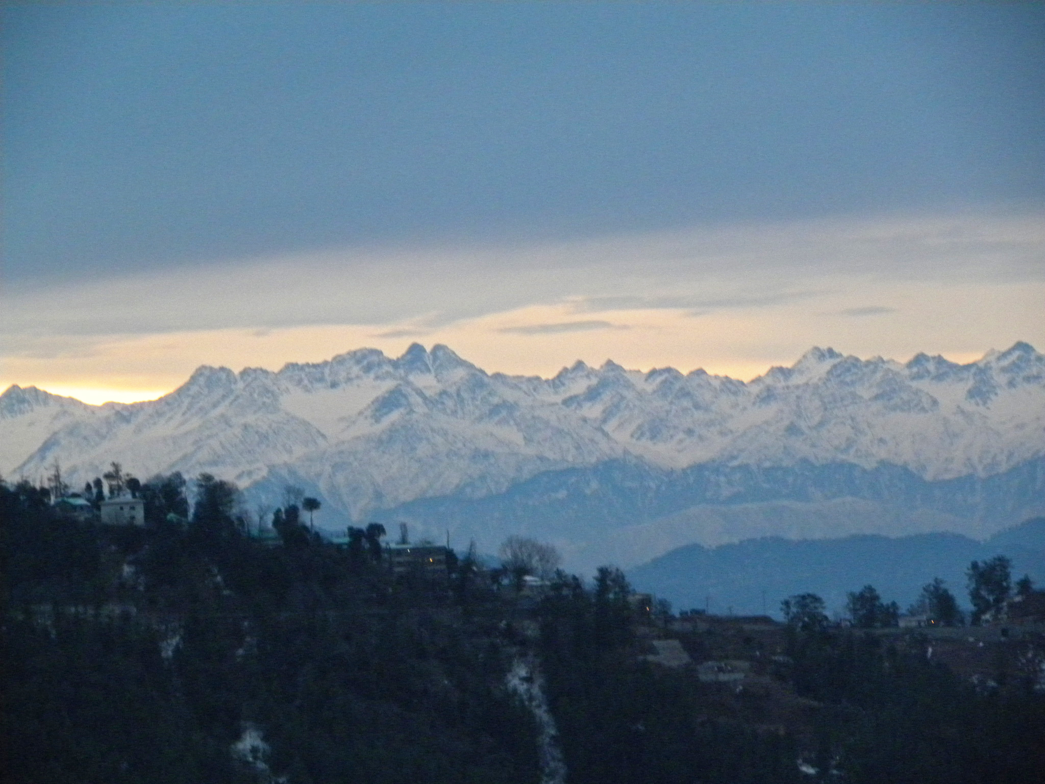 Early morning in North Punjab